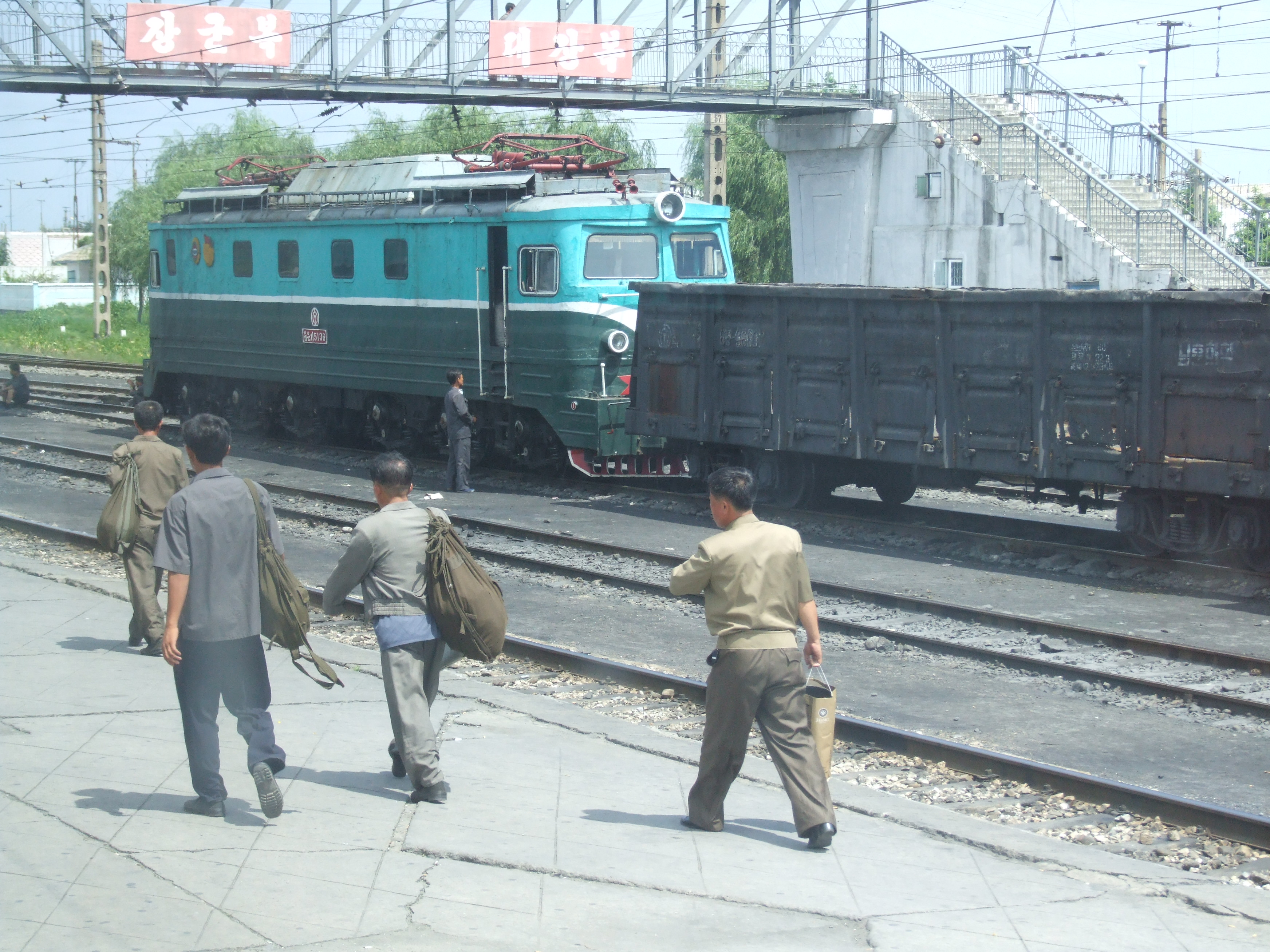 Sinanju Station